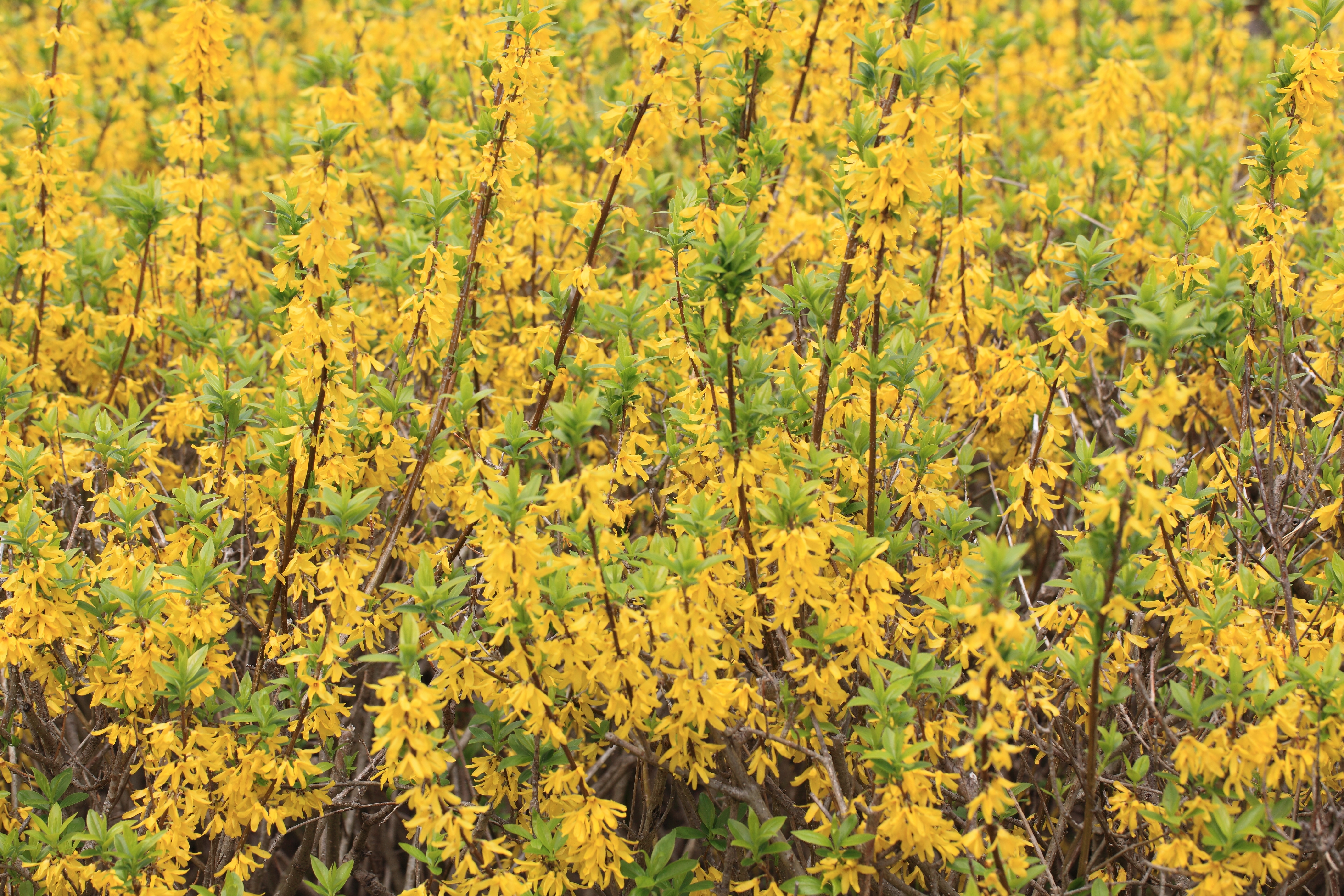 Forsythia viridissima (Golden Bells) in Aoba-no-mori-kouen Park, Chiba, Japan